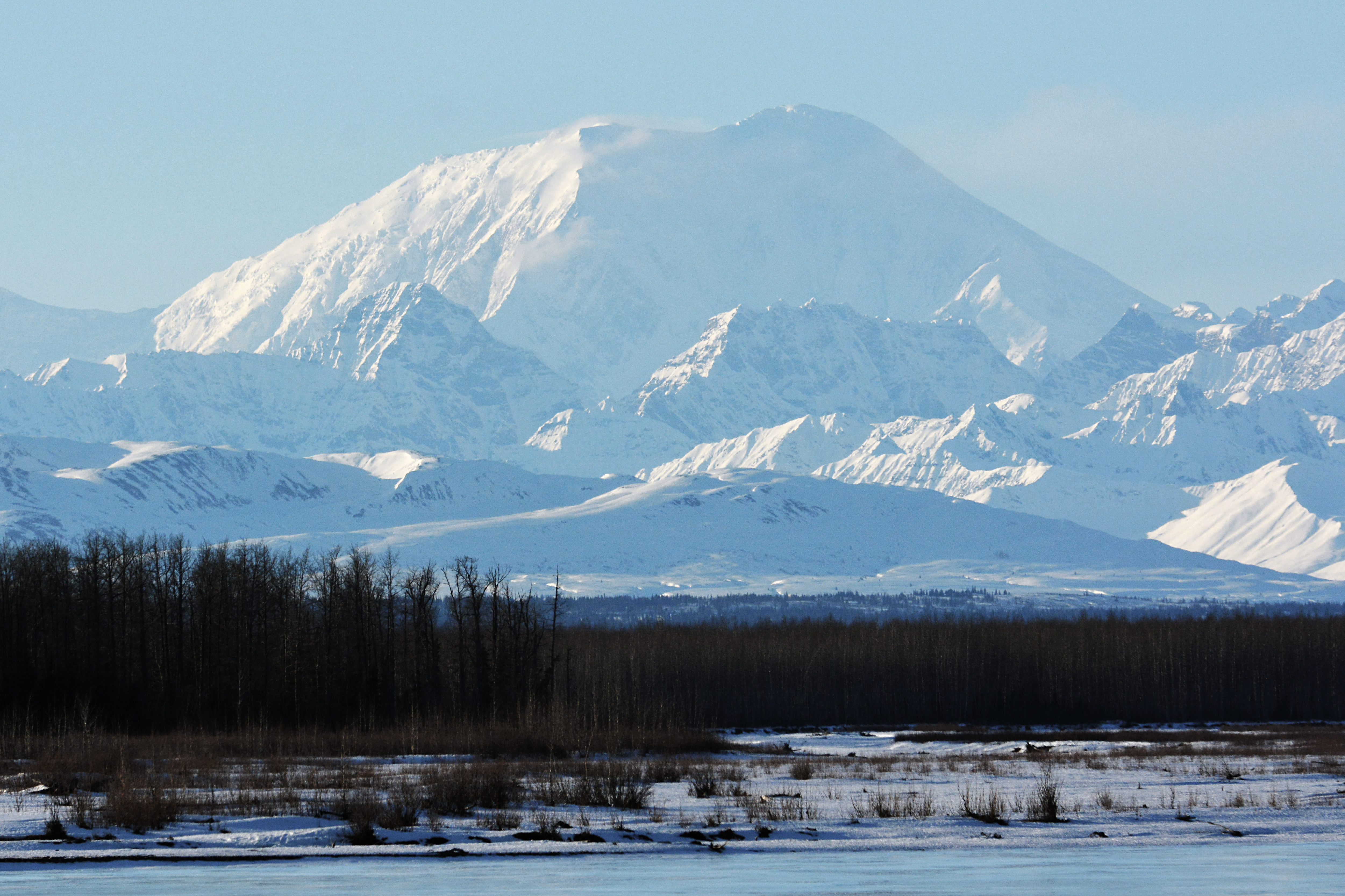 Mt. Foraker, as shot from the Alaska Railround near Talkeetna.